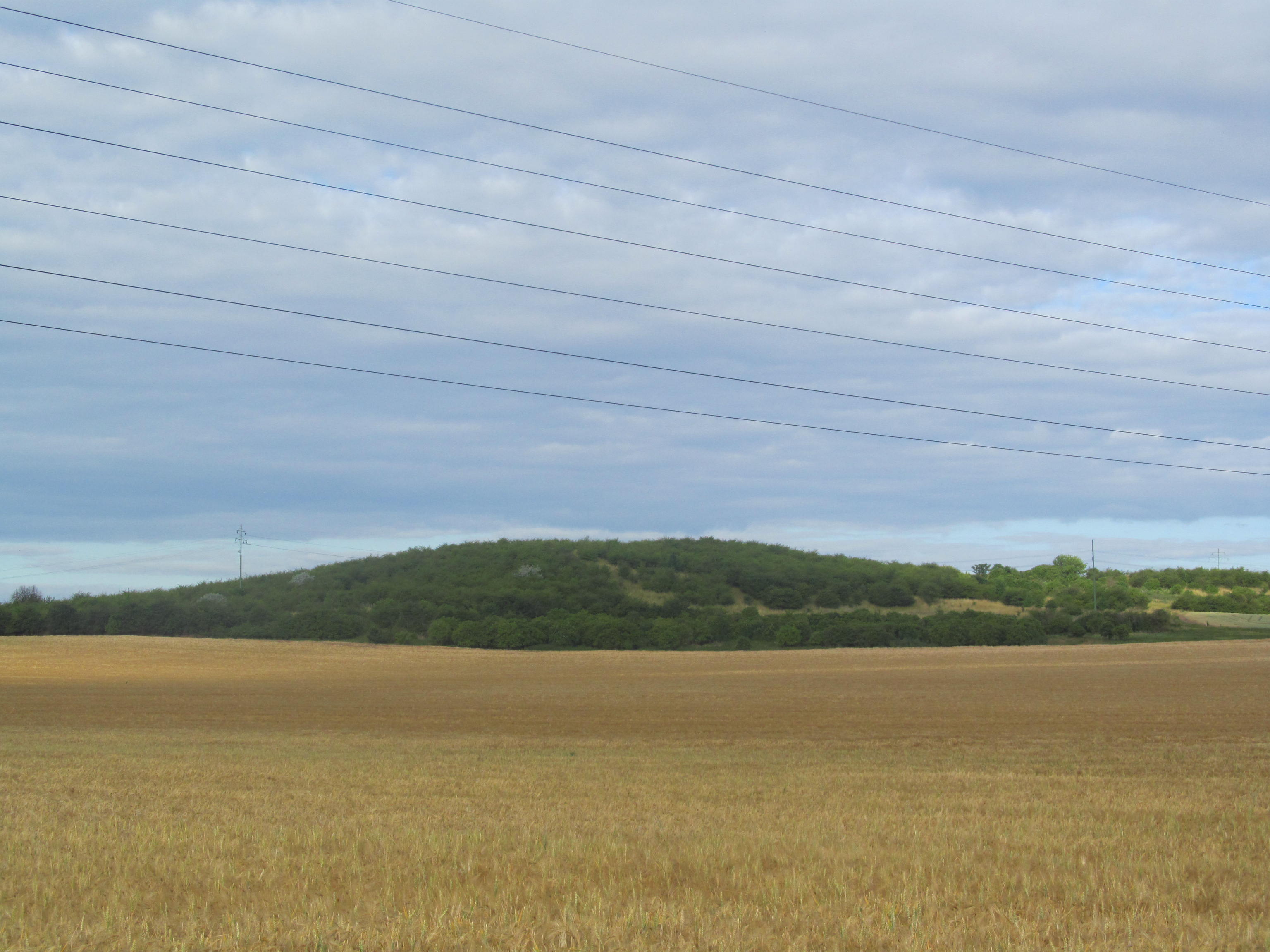 Bank Mělce by Louny